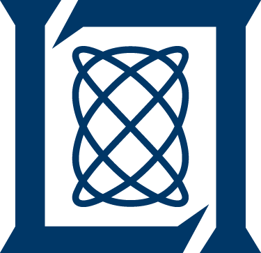 Official emblem of MIT LL